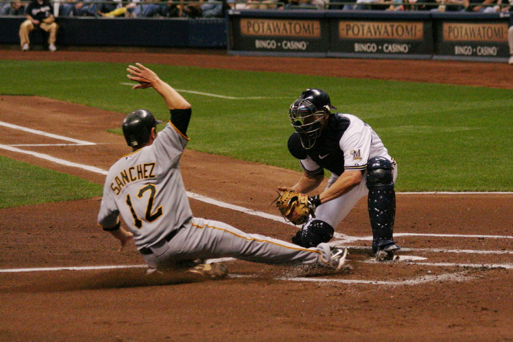 Jason Kendall for the Milwaukee Brewers blocks an attempted slide into home plate by Freddy Sanchez.